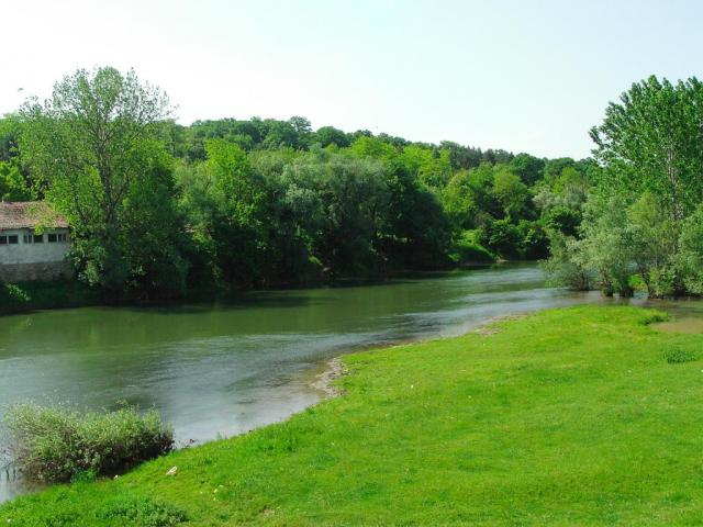 Ogosta River, Vraca, Bulgaria